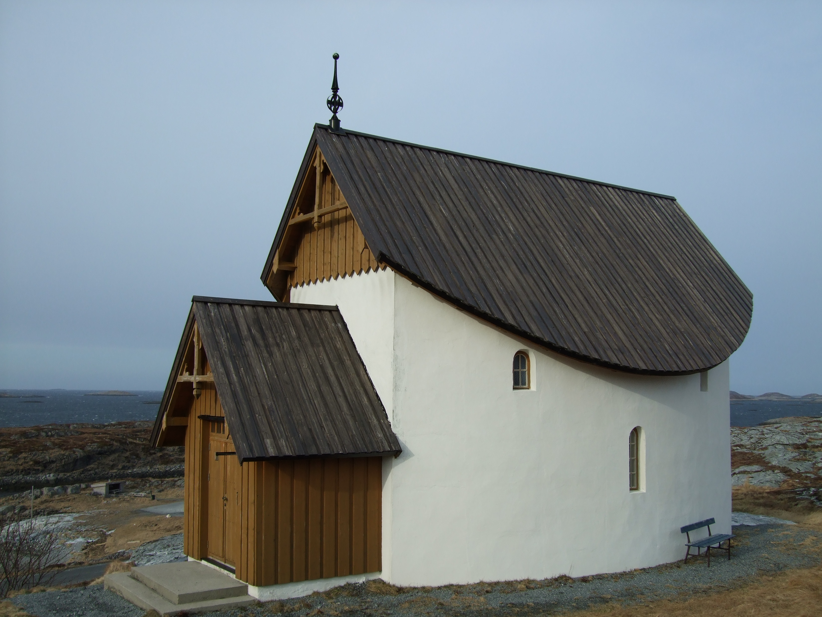 Petter Dass kapellet in Træna, Norway